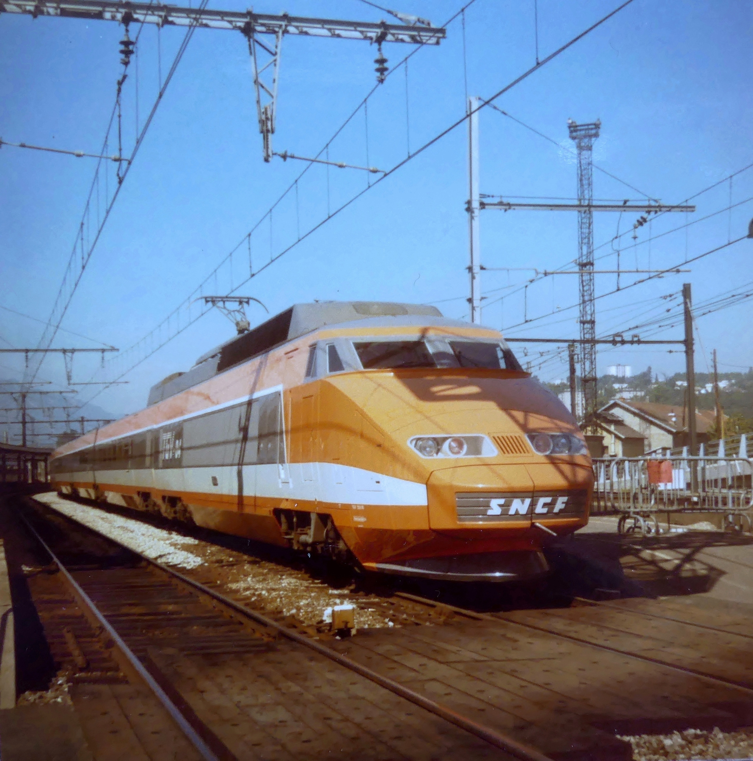 One of the first French TGV, n°04, exposed at Chambéry railway station in Savoie in the early 80's.